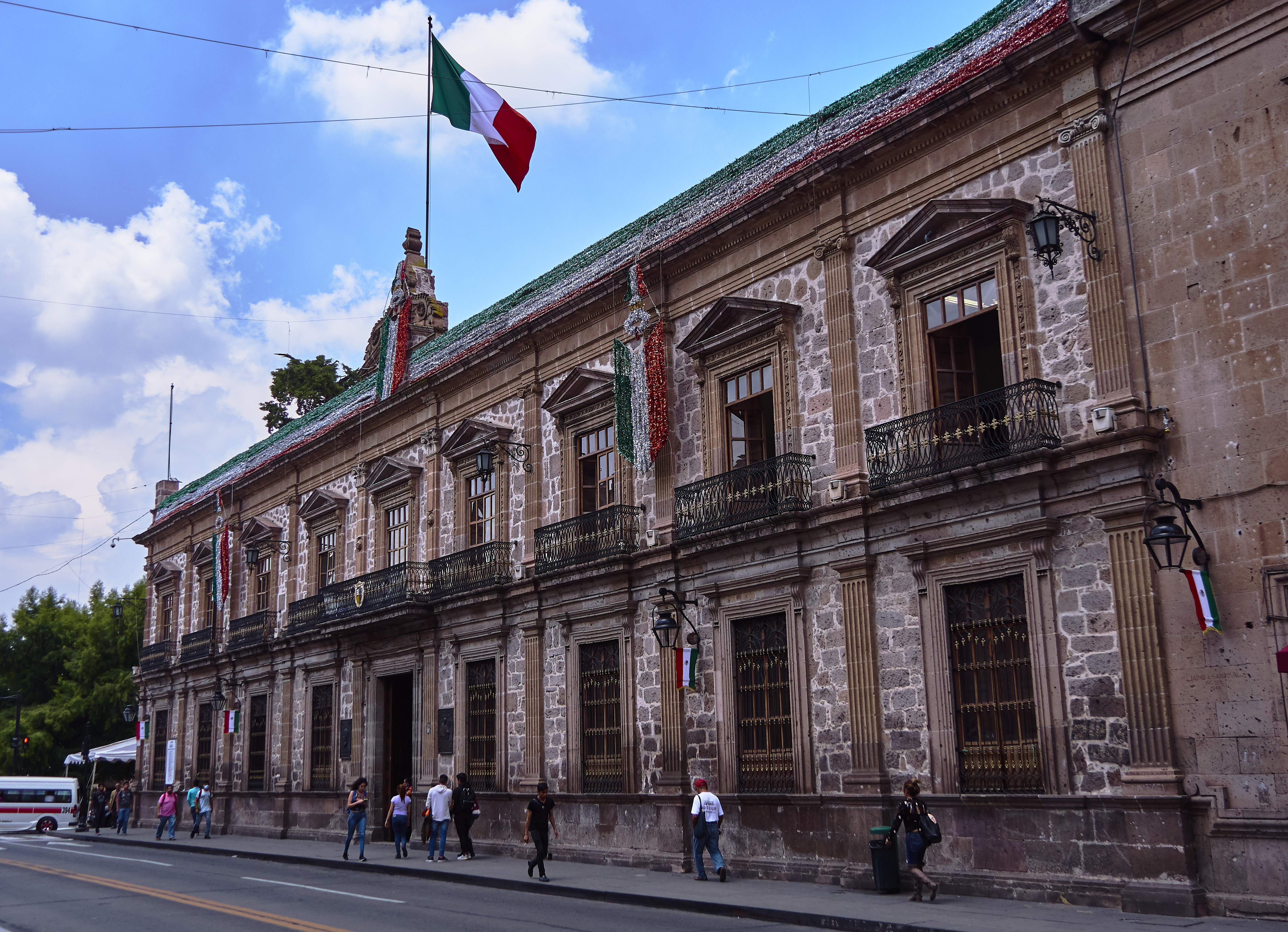 Front view of the Primitive and National College of San Nicolás de Hidalgo, currently High School #1 of the Universidad Michoacana de San Nicolás de Hidalgo